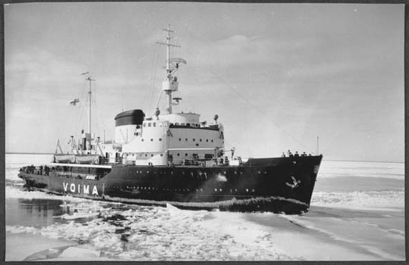 Icebreaker Voima (1954). Public domain from the collection of the Finnish National Board of Antiquities.